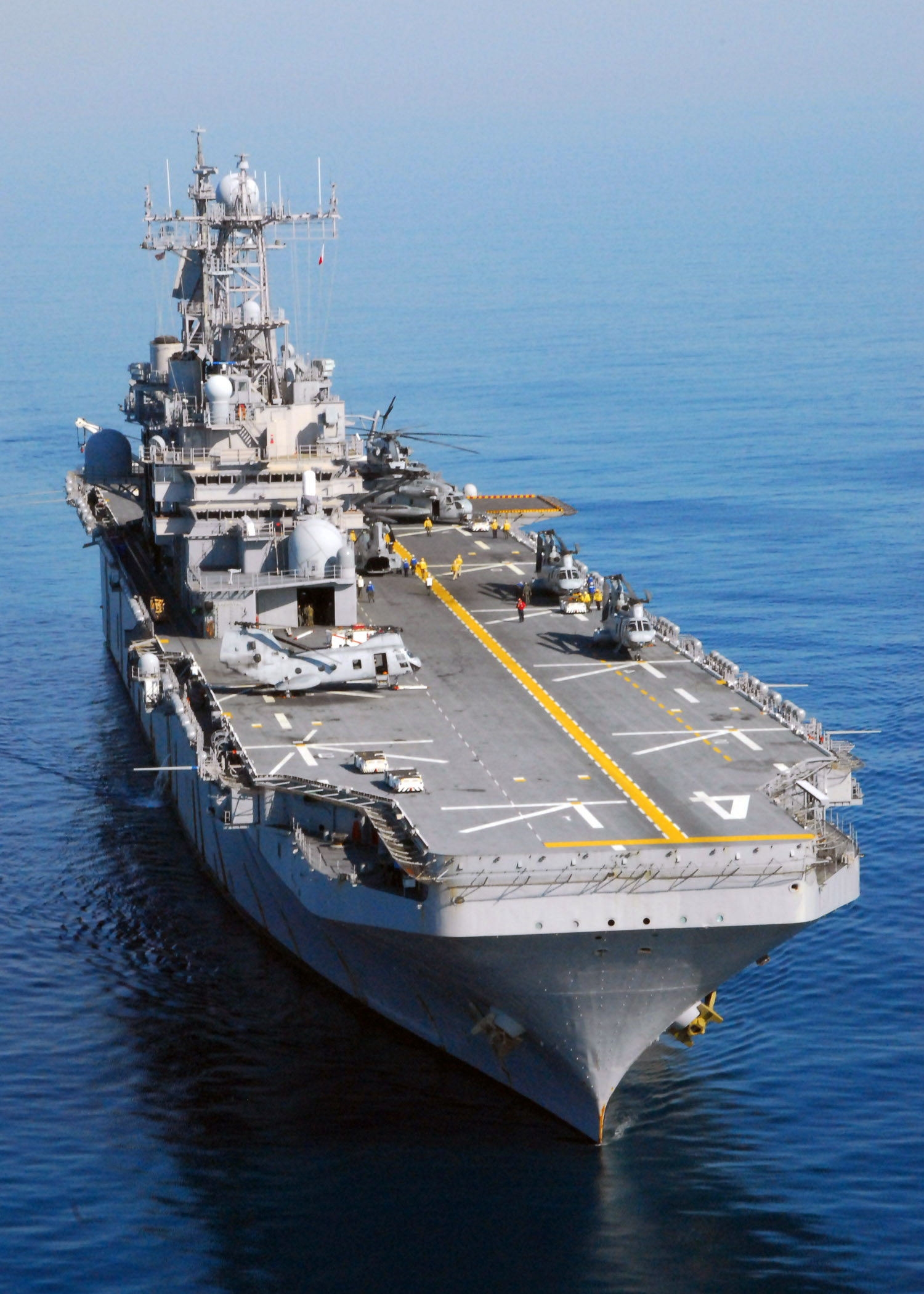 ATLANTIC OCEAN (Nov. 19, 2007) The amphibious assault ship USS Nassau (LHA 4) conducts flight deck qualifications with the air combat element of the 24th Marine Expeditionary Unit along with members of the Helicopter Sea Combat Squadron (HSC) 28. Nassau Strike Group is preparing for an upcoming deployment. U.S. Navy photo by Mass Communication Specialist Seaman Ryan Steinhour (Released)